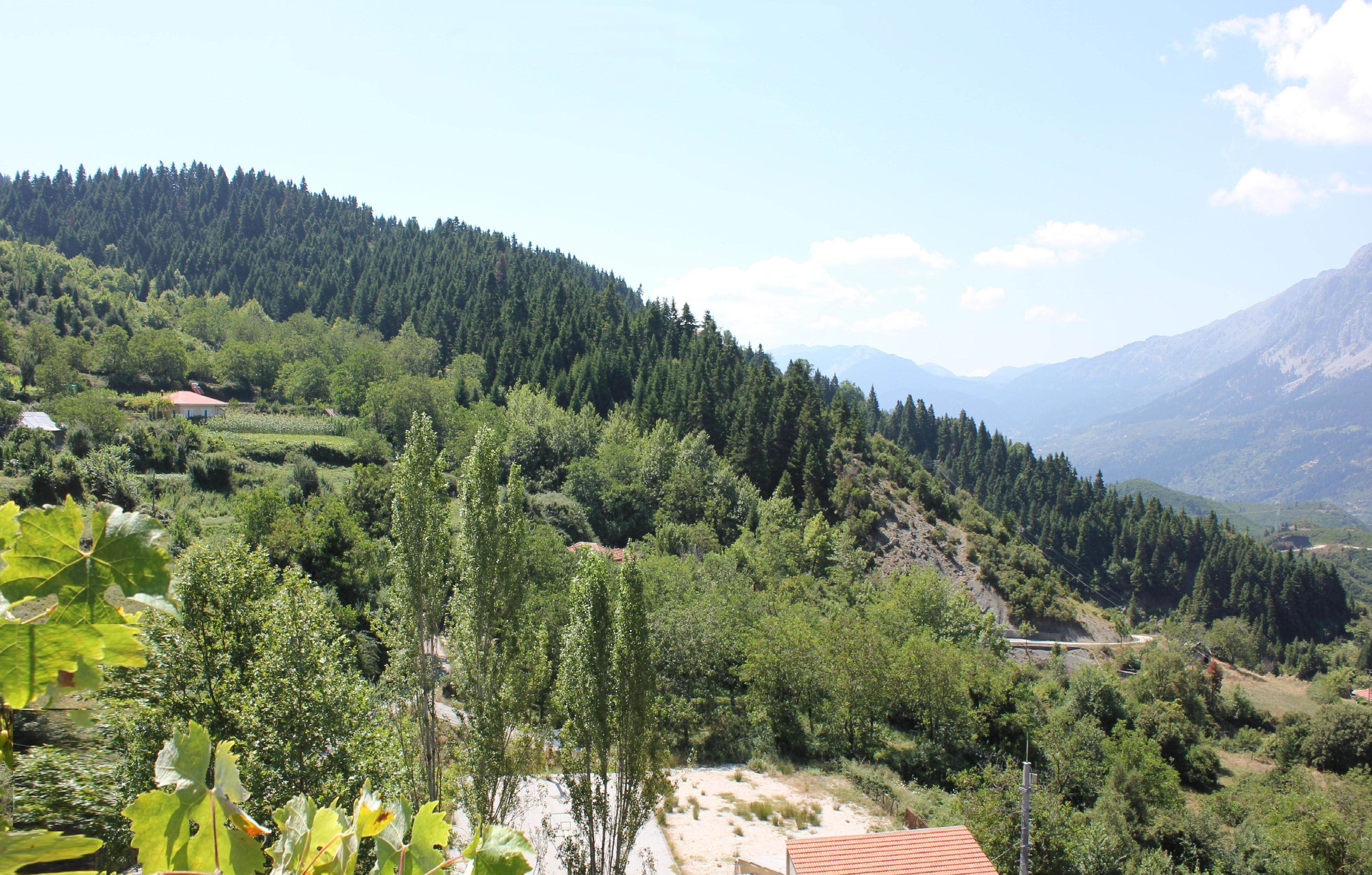 Salta hill, Elati, Arta, Greece